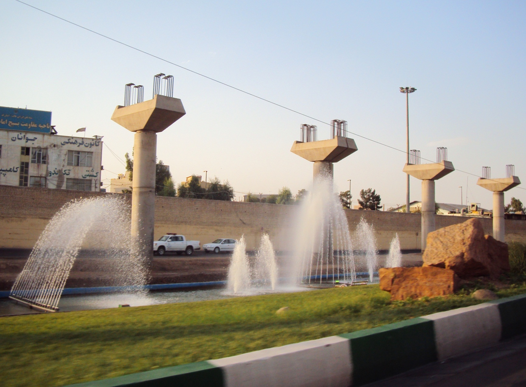 پروژه‌ی مونوریل قم